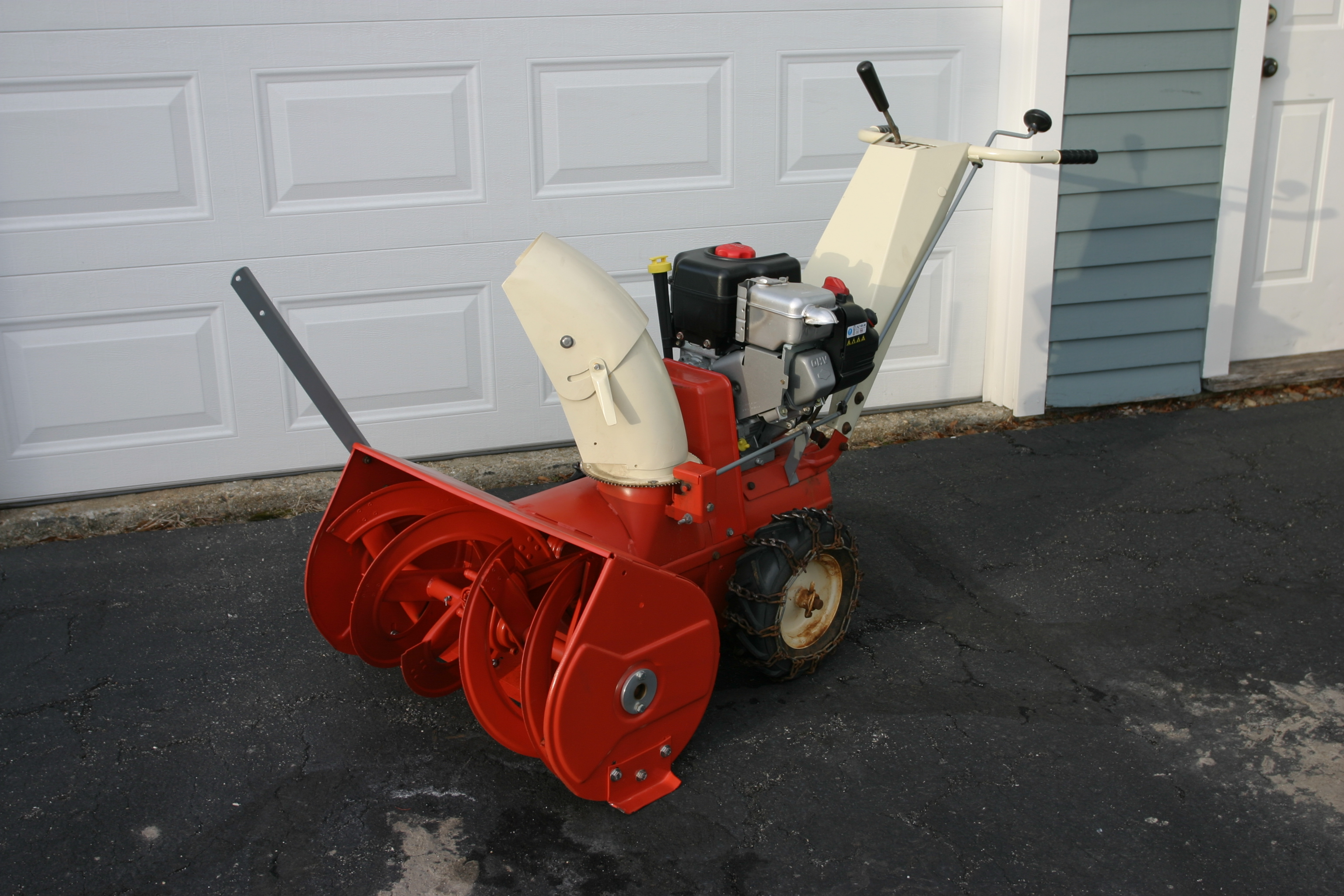 A snowblower (model 55093) manufactured ca. 1975 by Gilson Brothers Co. in Plymouth, Wisconsin. This particular unit has been restored using stainless steel hardware, paints that closely approximate the original Gilson colors, and a later OHV Briggs and Stratton engine.